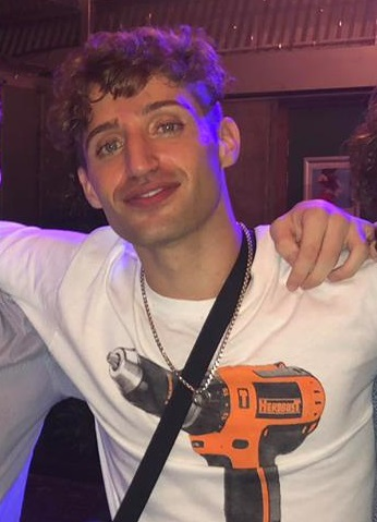 Herobust, American electronic music DJ and record producer, pictured in October 2018 in Brisbane, Queensland, Australia